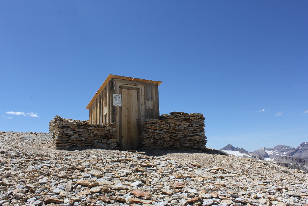 View of Fort Peabody in 2012, after restoration